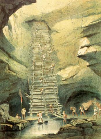 Cenote Xtacumbilxunan, at Bolonchen, Yucatan; view by Frederick Catherwood